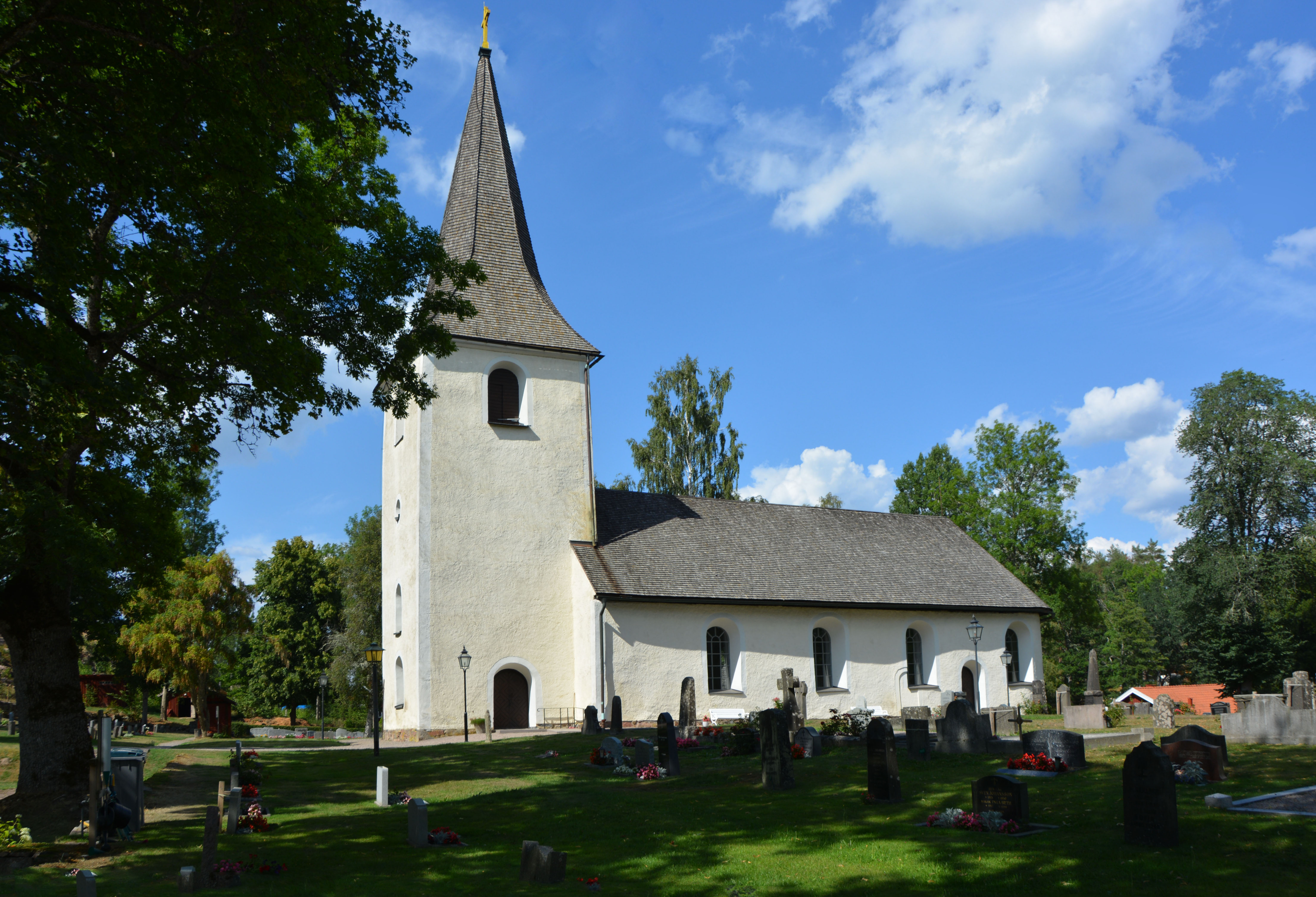 Nye Church.The exterior of the church from the south.